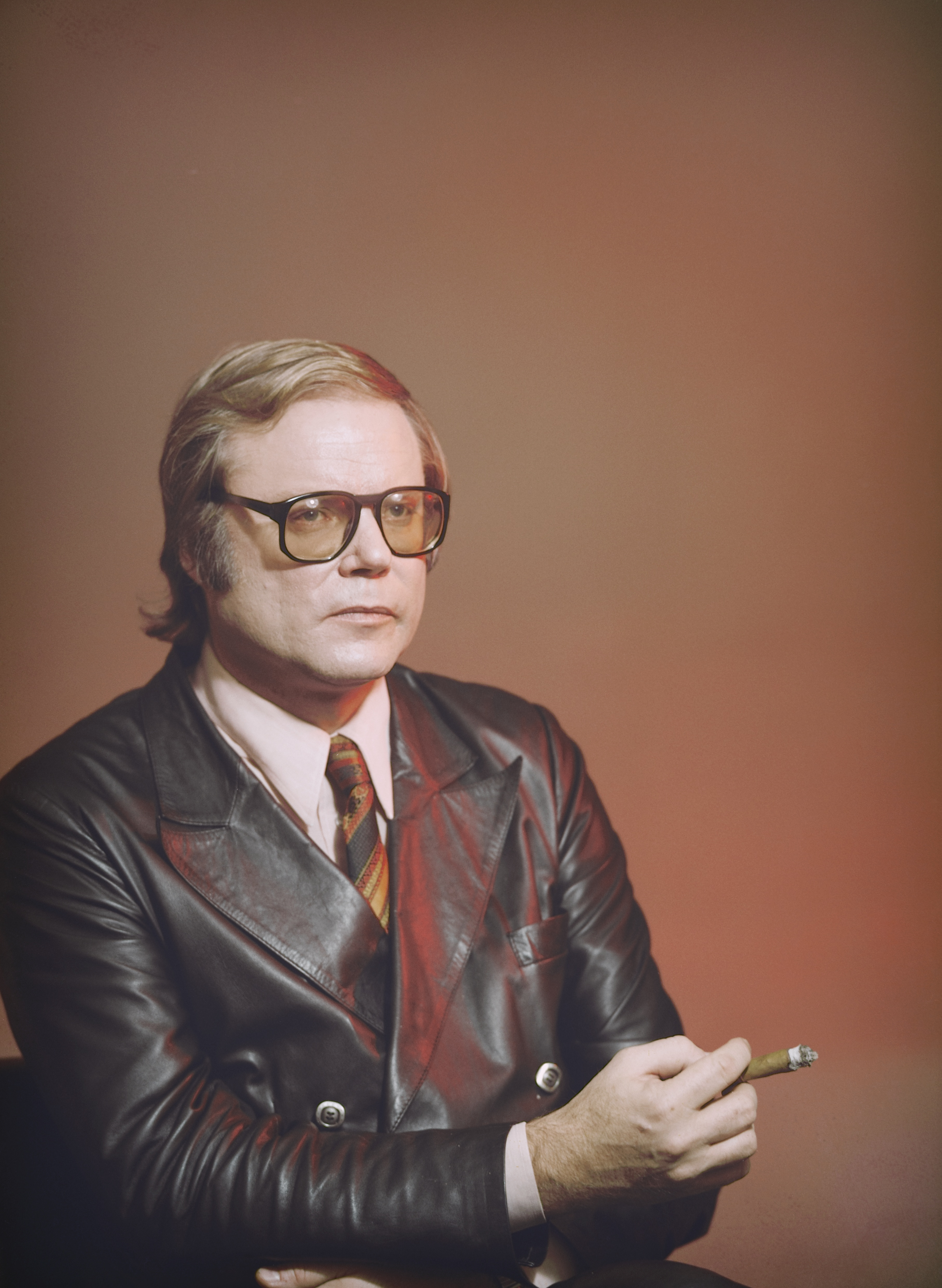 Photograph of the Finnish diplomat Jussi Mäkinen (1929–1978).